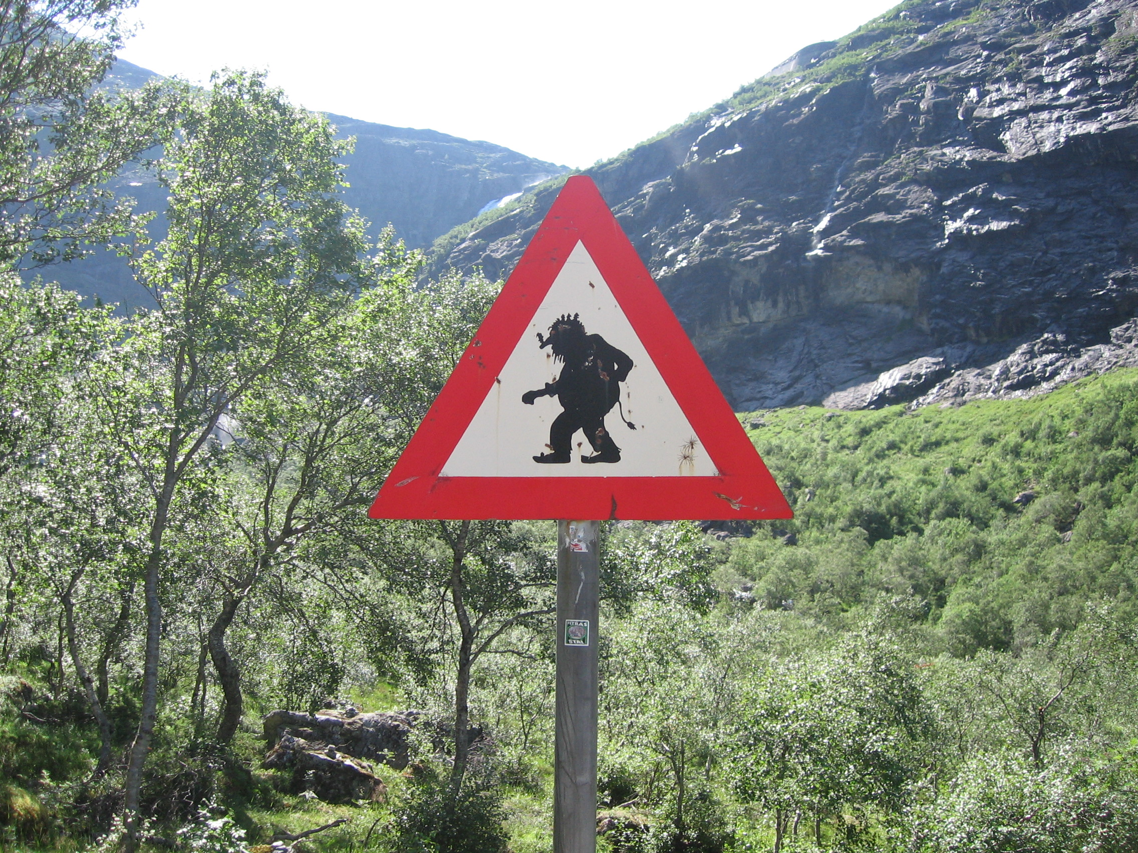 "Caution: trolls" road sign near Trollstigen, Norway